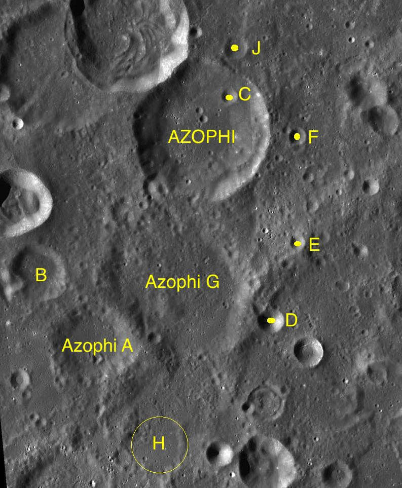 Part of the chart LAC-96 used for the presentation.